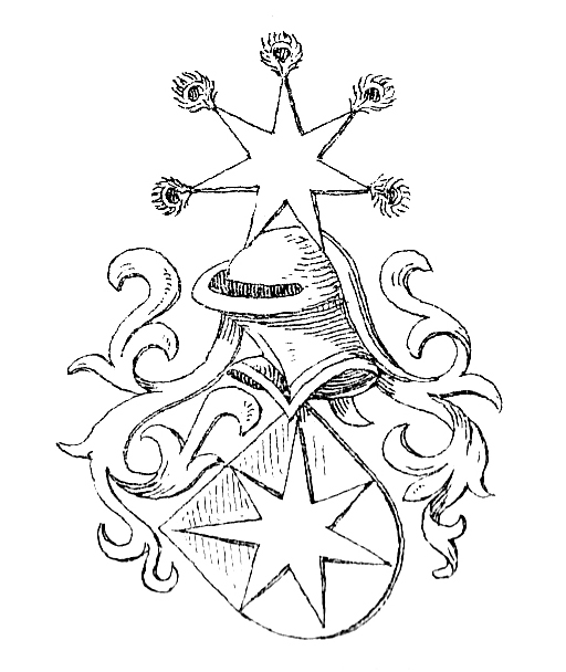 Stjerne of Suðrheim coat of arms. By H. B. Storck.